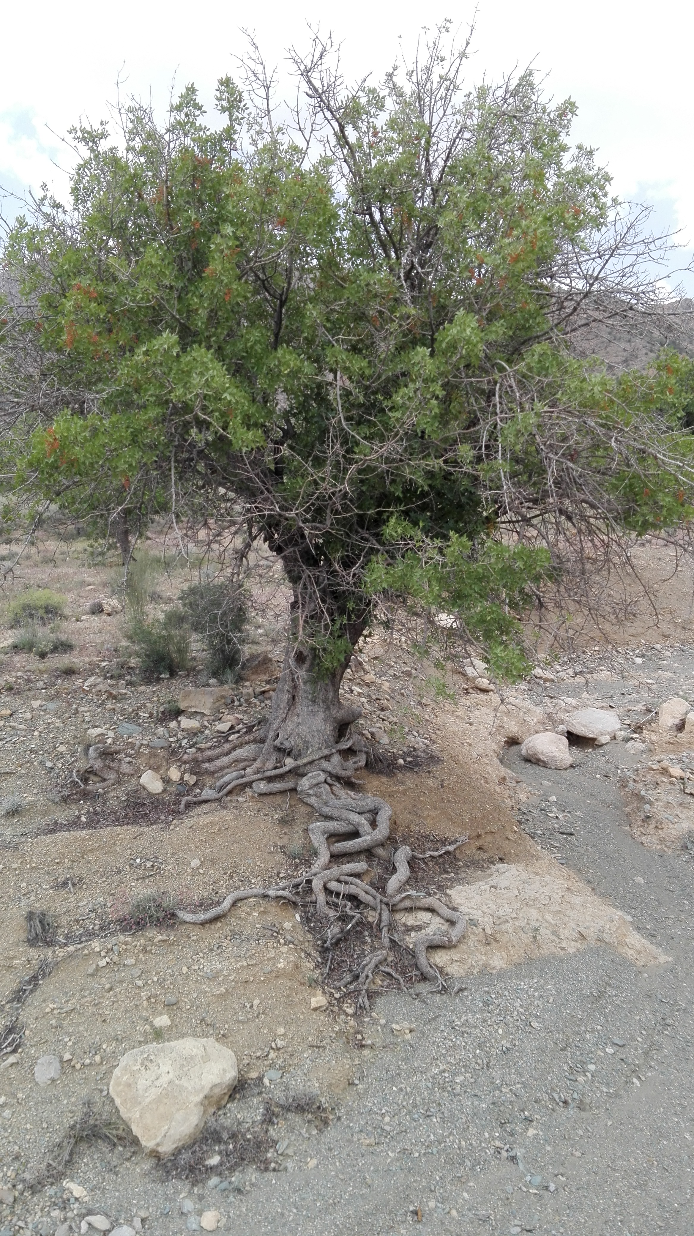 درخت بنه در پارک ملی خبر که با ریشه هایی بسیار قوی مانع از فرسایش خاک می شود